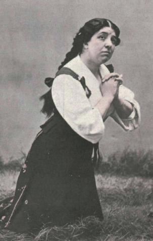 Spanish Actress Nieves Suárez